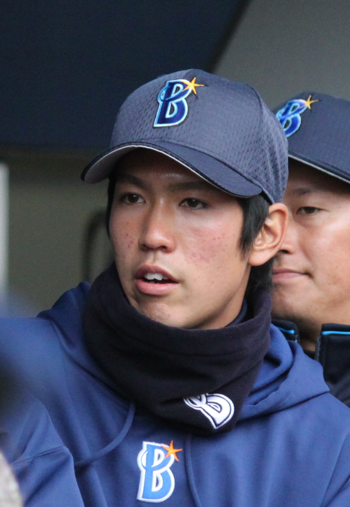 Toru Komura, pitcher of the Yokohama DeNA BayStars, at Yokohama Stadium.